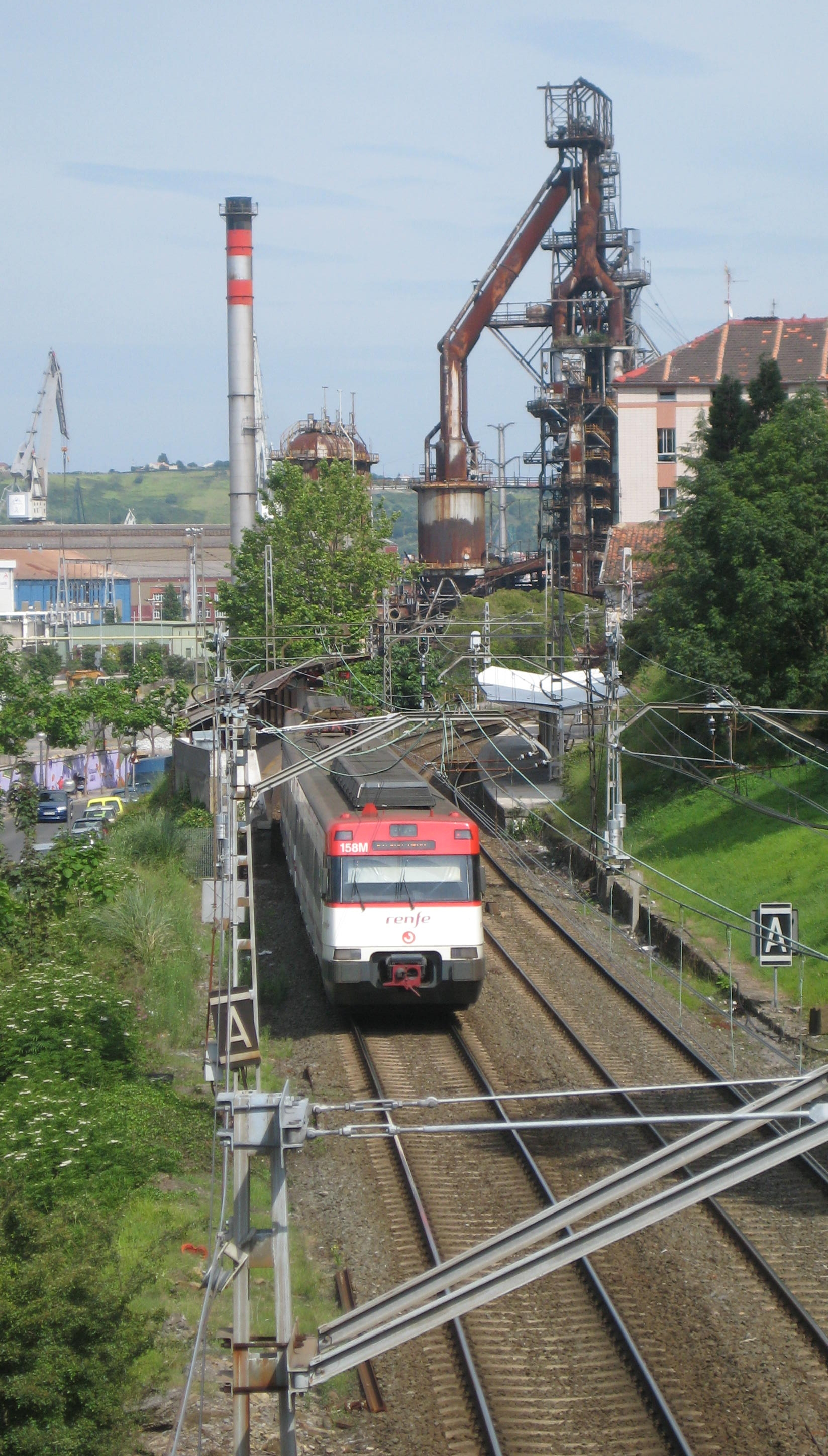 RENFE train in Sestao, Biscay.